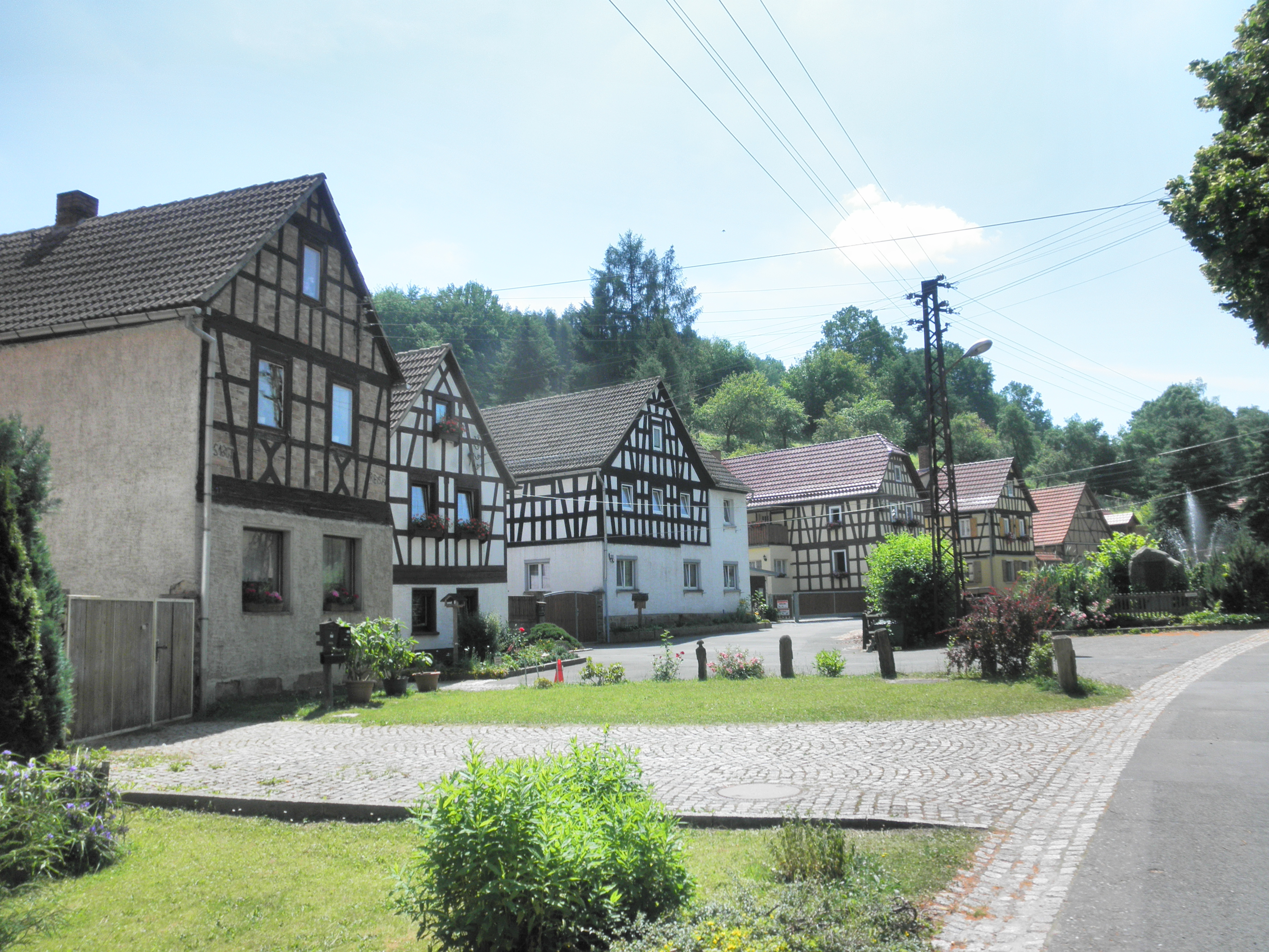 Houses in Meusebach in Thuringia